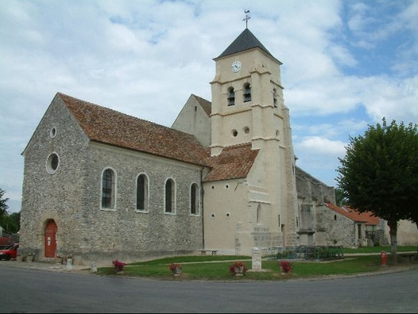 Saint-Remi church of Congis-sur-Thérouanne